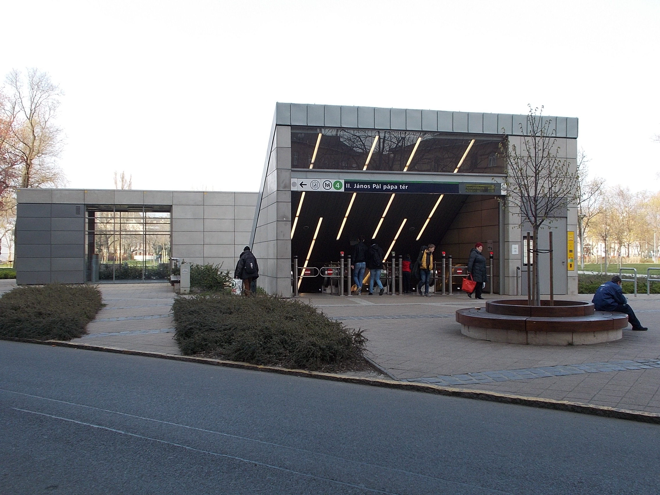 Line 4 (Budapest Metro), II. János Pál pápa tér station, main entrance. - Budapest District VIII.